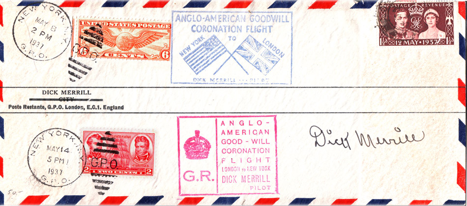 Cover flown by Dick Merrill on the Anglo-American Goodwill Coronation Flight transatlantic round trip (New York-London-London) May 8-14, 1937 (The Cooper Collections) Photograph by uploader Licensing UK Stamps US Stamps Cachets